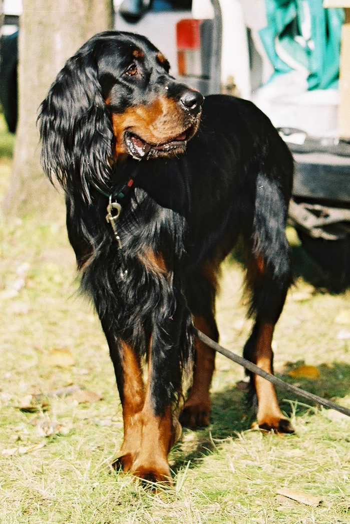 Gordon Autor: Pleple2000 15:52, 22 December 2005 (UTC)